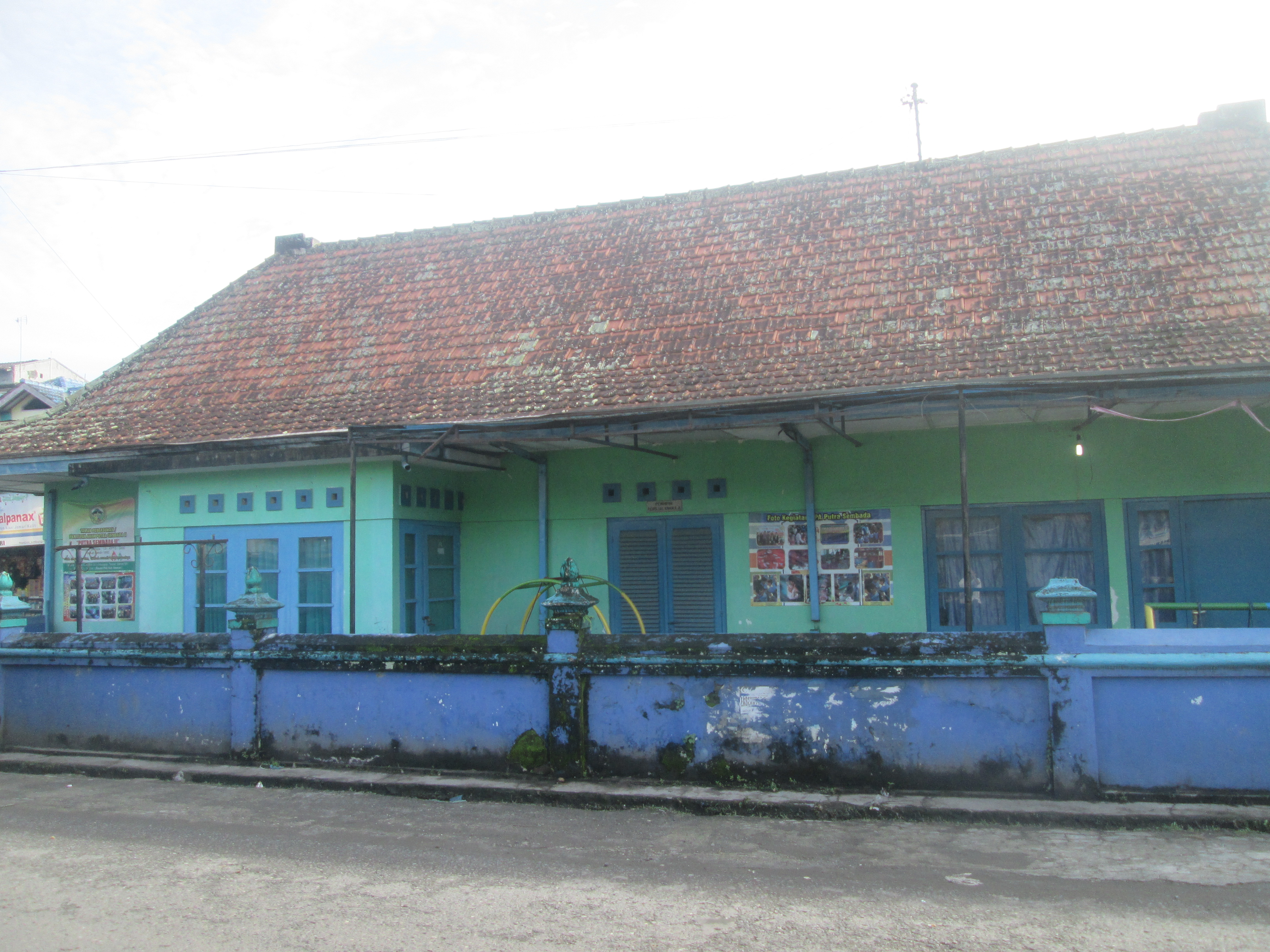 Ex-Tempel station. The station building is now used for kindergarten.